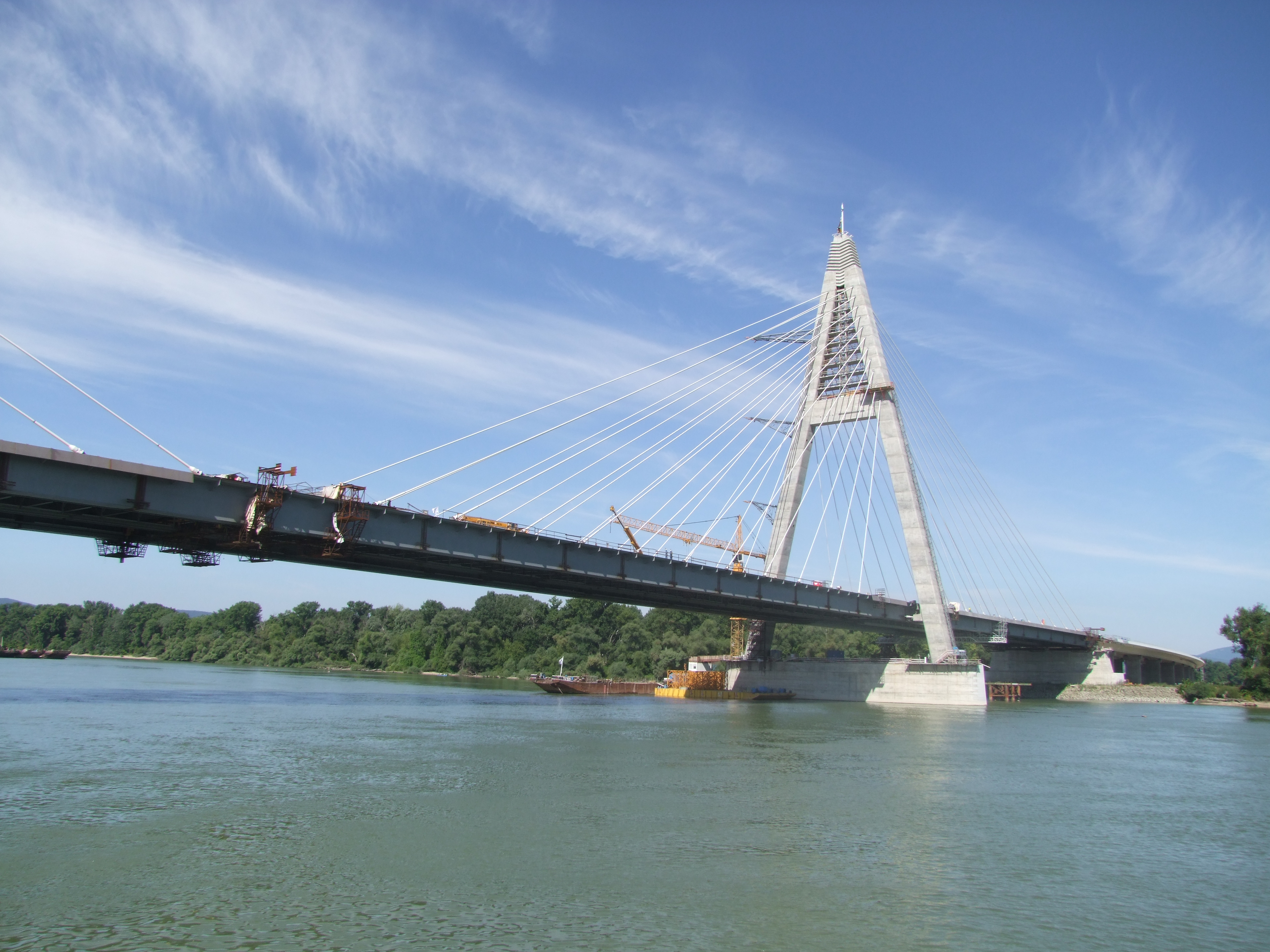 The Megyeri Bridge under construction, Budapest, Hungary